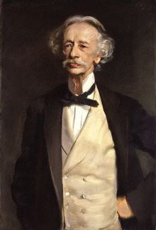 portrait of Coventry Patmore by JS Sargent